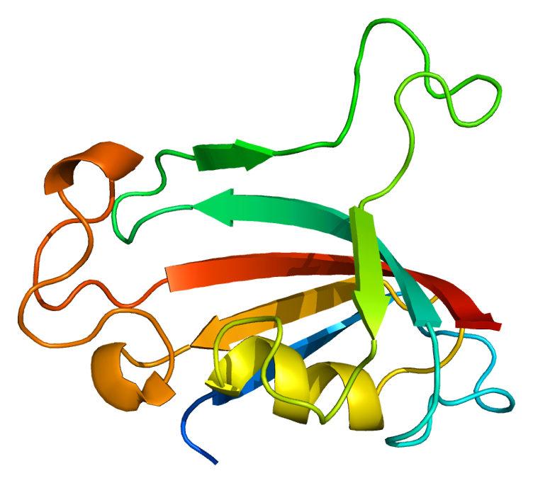 Structure of the FKBP3 protein. Based on PyMOL rendering of PDB 1pbk.